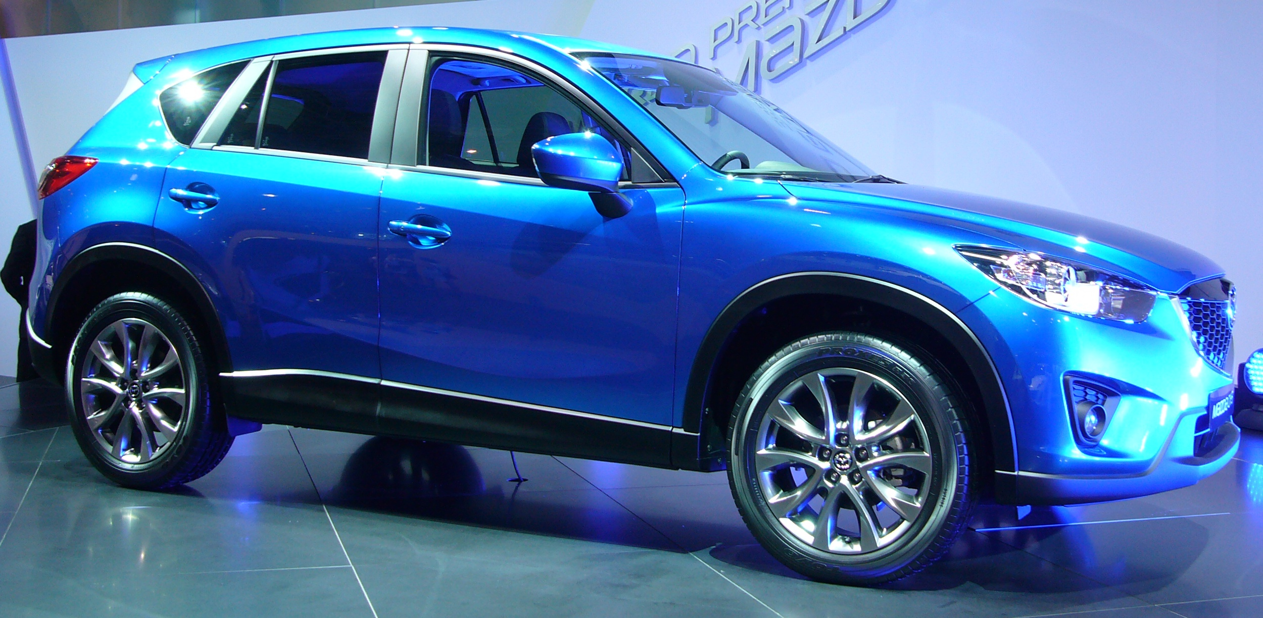 Mazda CX-5 at IAA Frankfurt 2011